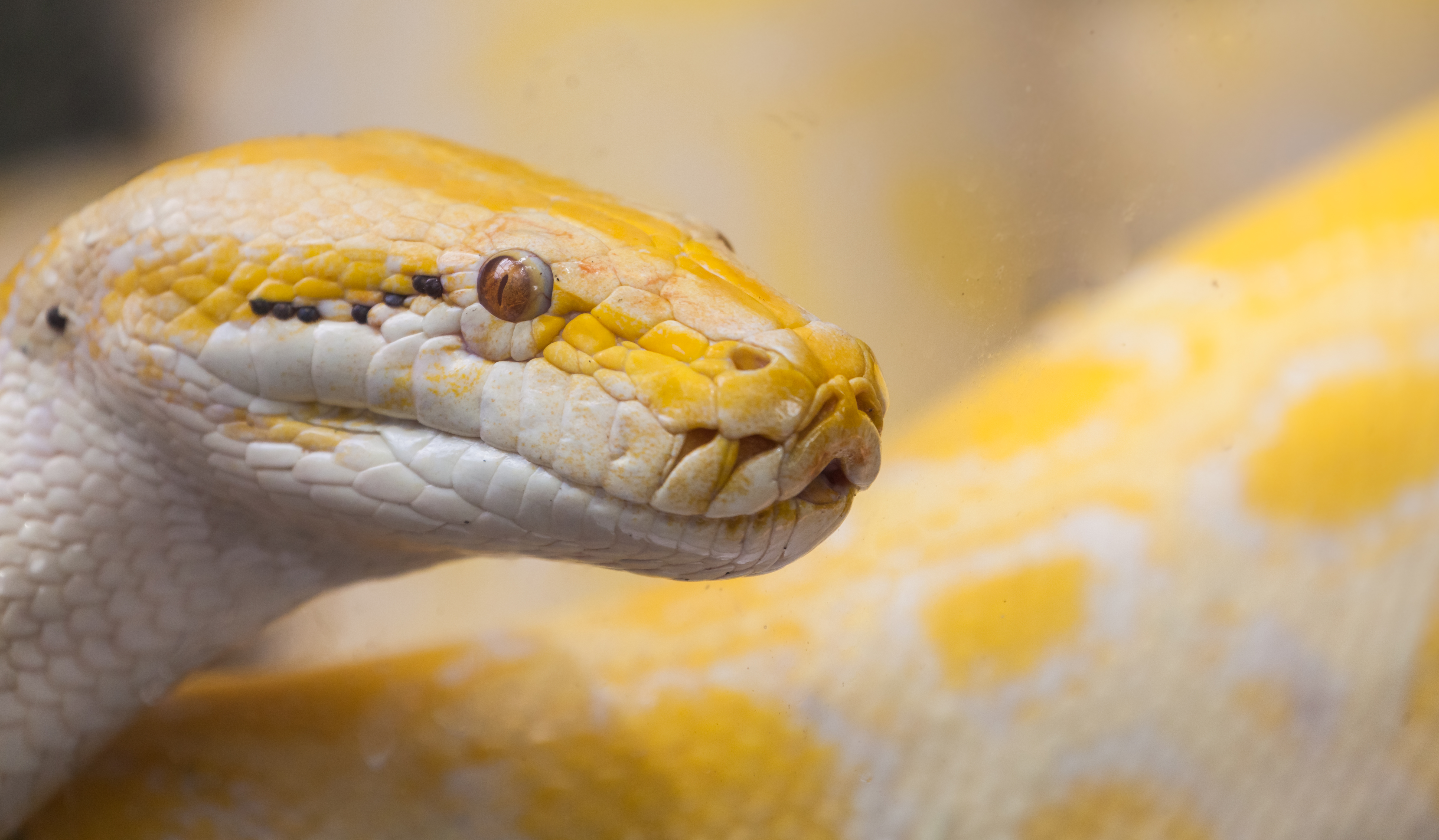 Indian python albino (Python molurus), Ho Chi Minh City Zoo, Vietnam